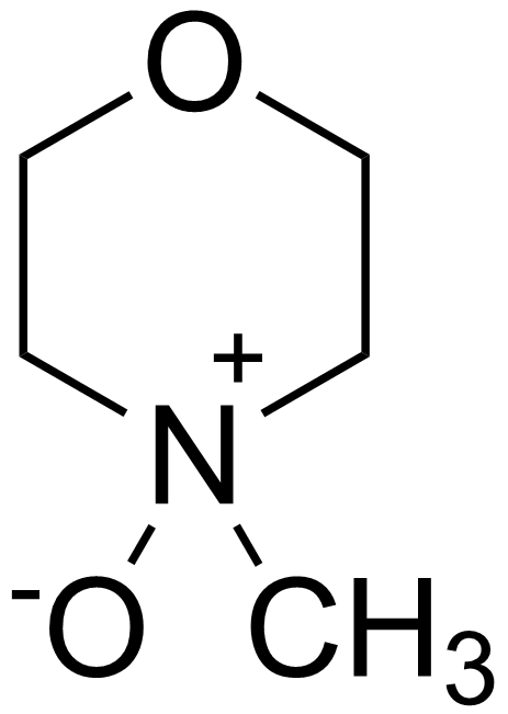 chemical structure of N-methylmorpholine-N-oxide (NMO)